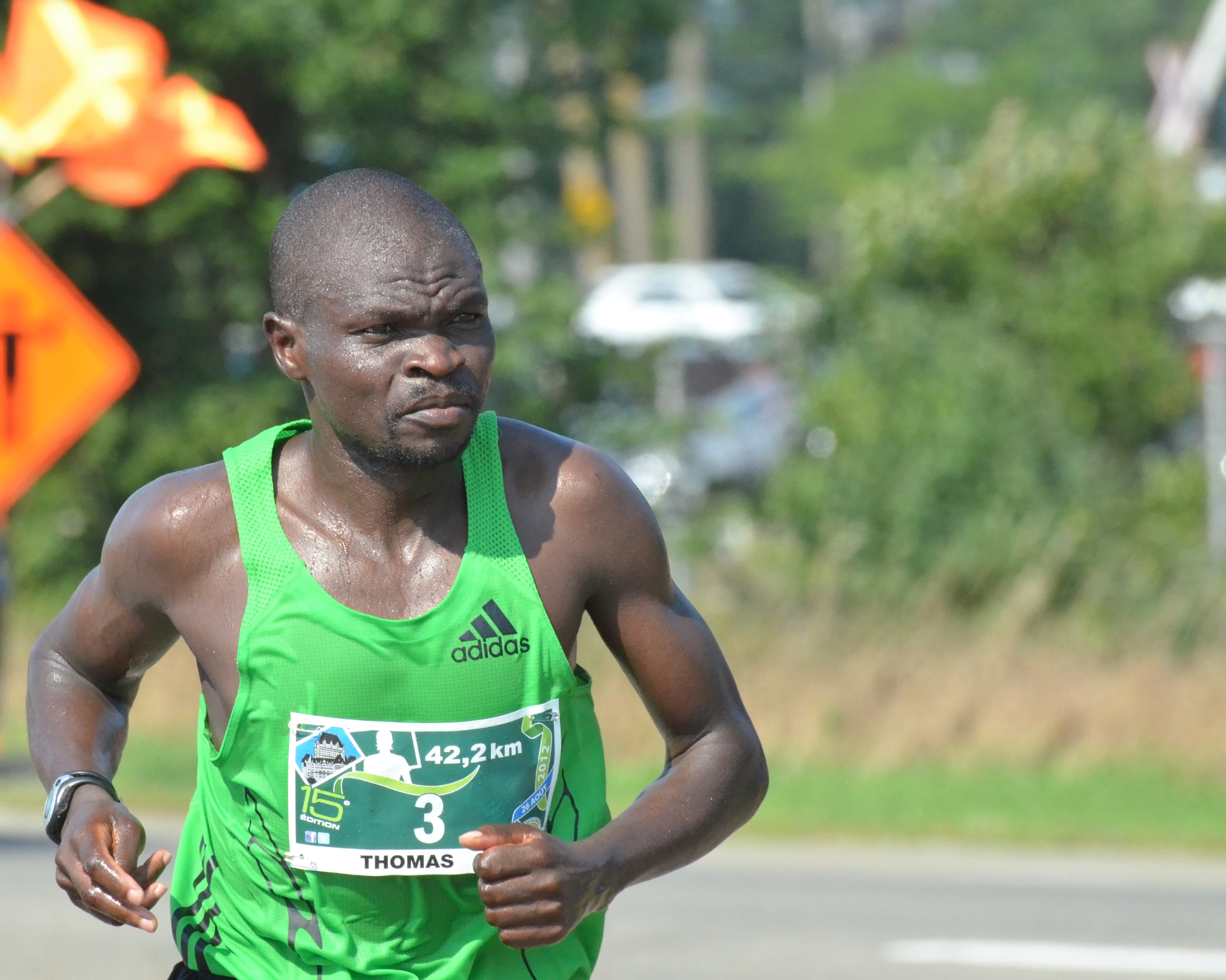 Thomas Omwenga, winner of the 2012 Marathon des Deux Rives, in Quebec City